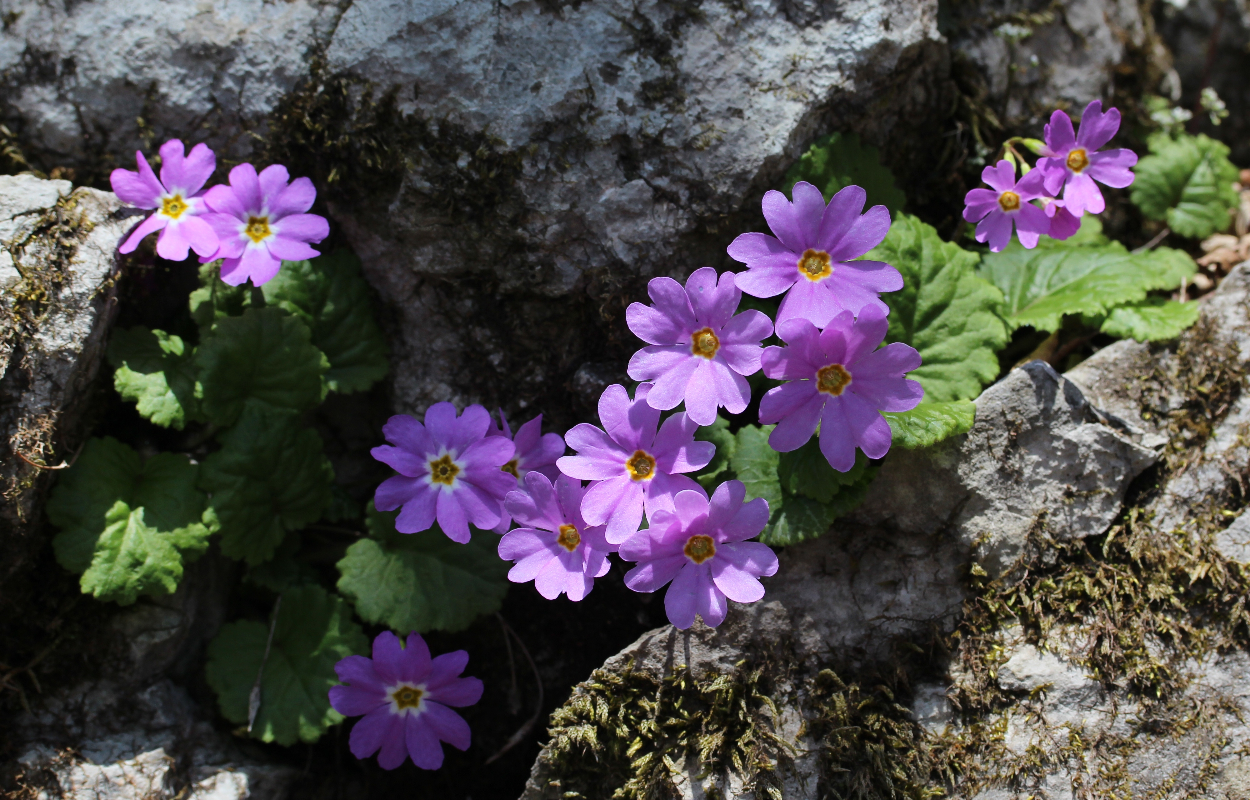 Primula tosaensis Yatabe, in Mount Funabuse, Yamagata, Gifu, Japan.